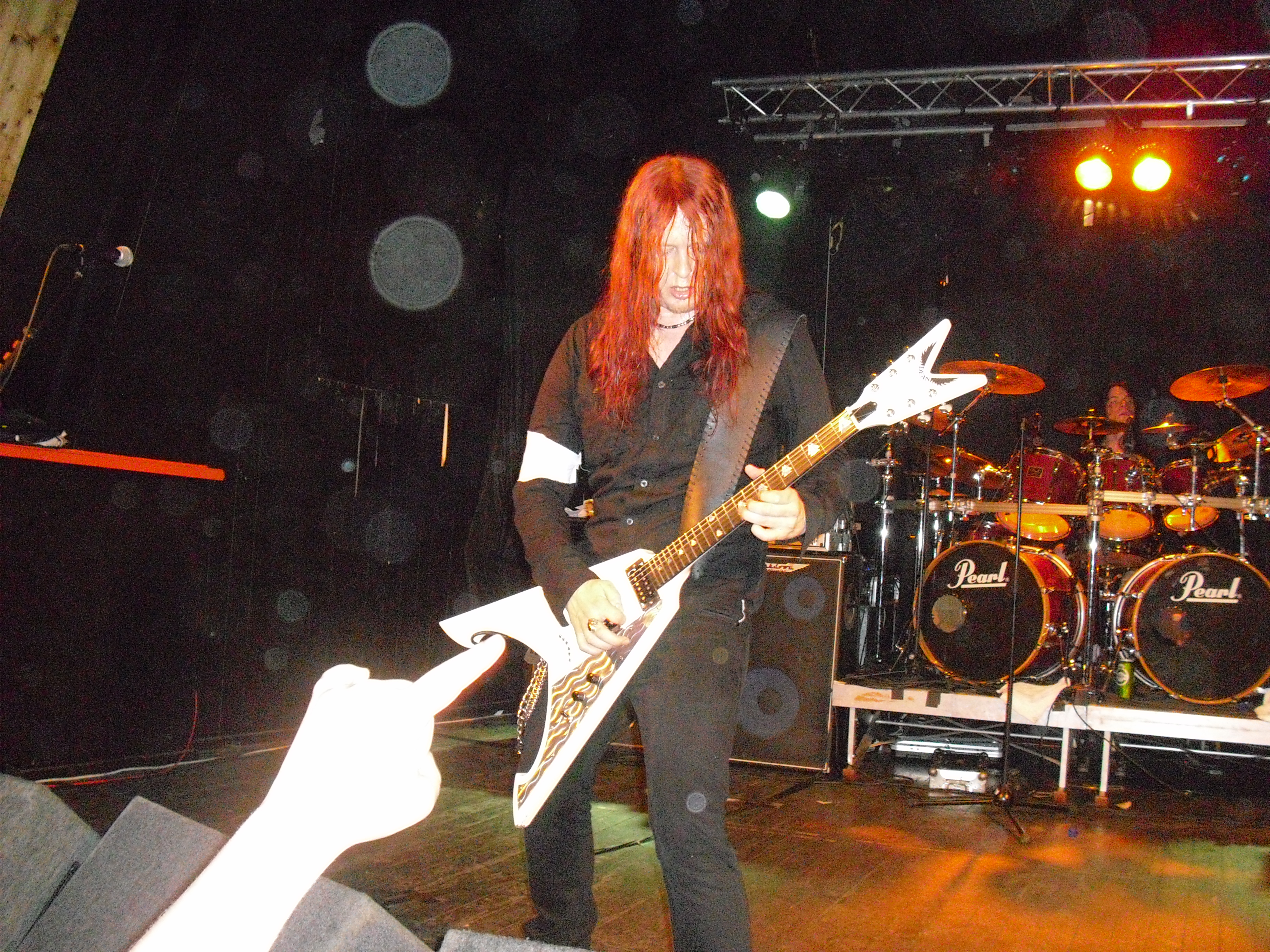 Michael Amott performing with Arch Enemy at The Untouchables Hard Rock Club in Jevnaker, Norway